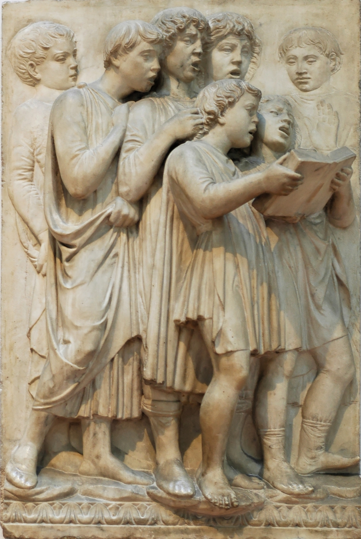 Boys singing, illustration of Psalm 150 (Laudate Dominum). Panel decorating the cantoria (singers' gallery), actually a balcony for the 1438' organ of the Duomo. Museo dell'Opera del Duomo, Florence, Italy. Marble.